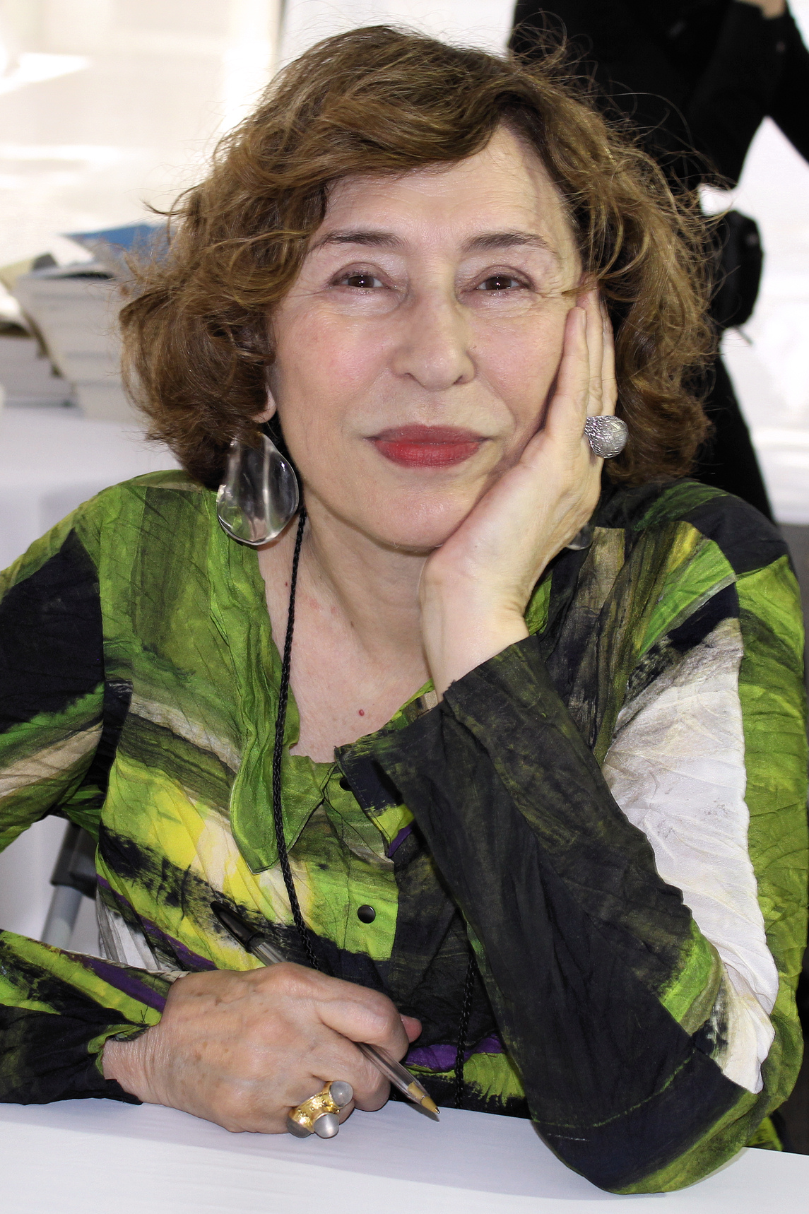 Author Azar Nafisi at the 2015 Texas Book Festival.